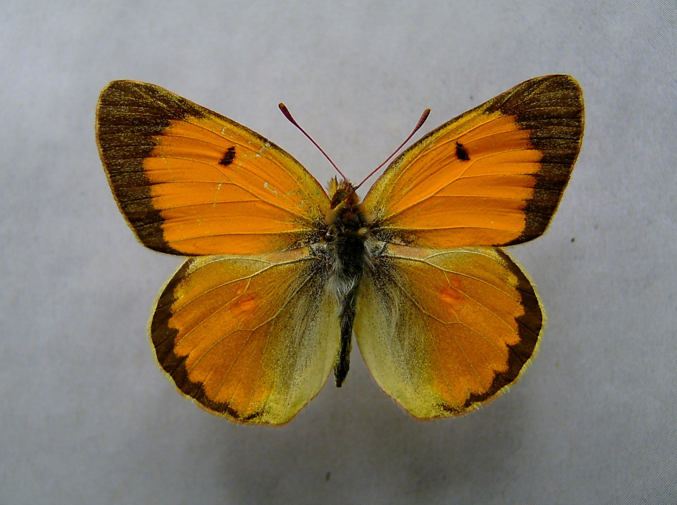 Colias myrmidone